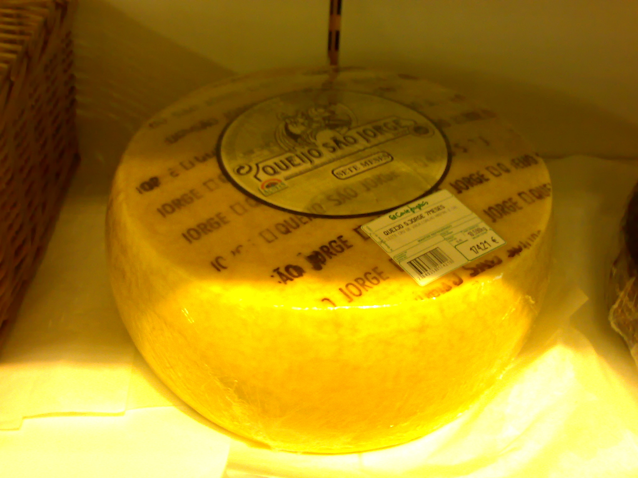 "Queijo São Jorge", a cheese from the Azores islands, in Portugal.